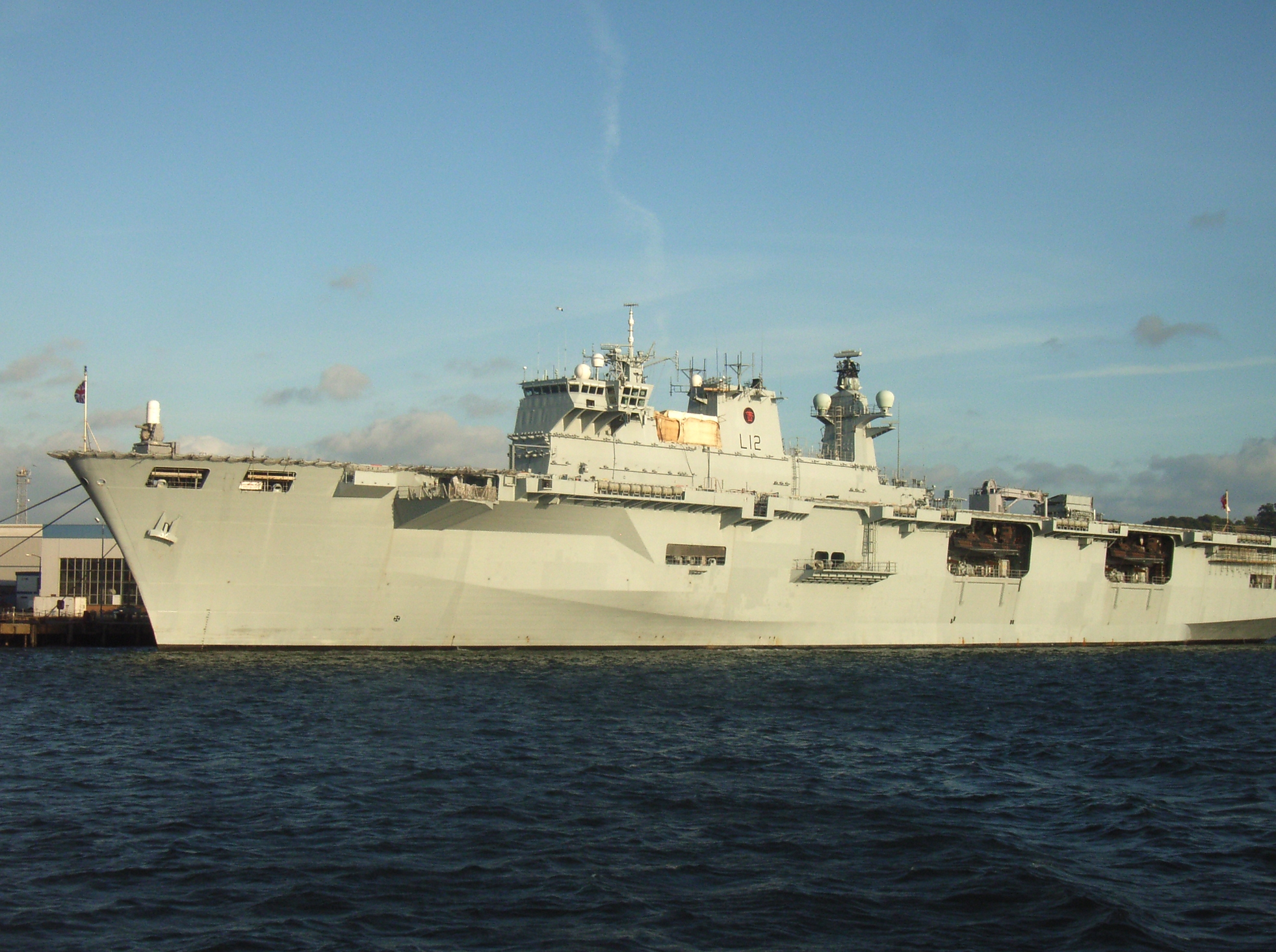 The HMS Ocean, an Royal Navy Amphibious Assault Ship commissioned in 1995; seen in Plymouth, 2006.